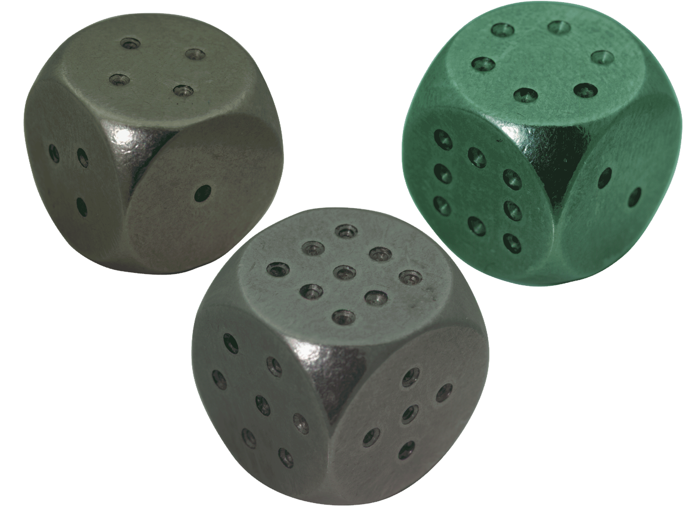 Miwins Dice made of Titan (Nontransitive dice) Dr.M.Winkelmann made this picture and allowed the free use, no copy right this picture exists. See also File:Miwin-Wuerfel-Zahlen-Anordnung-klein.gif